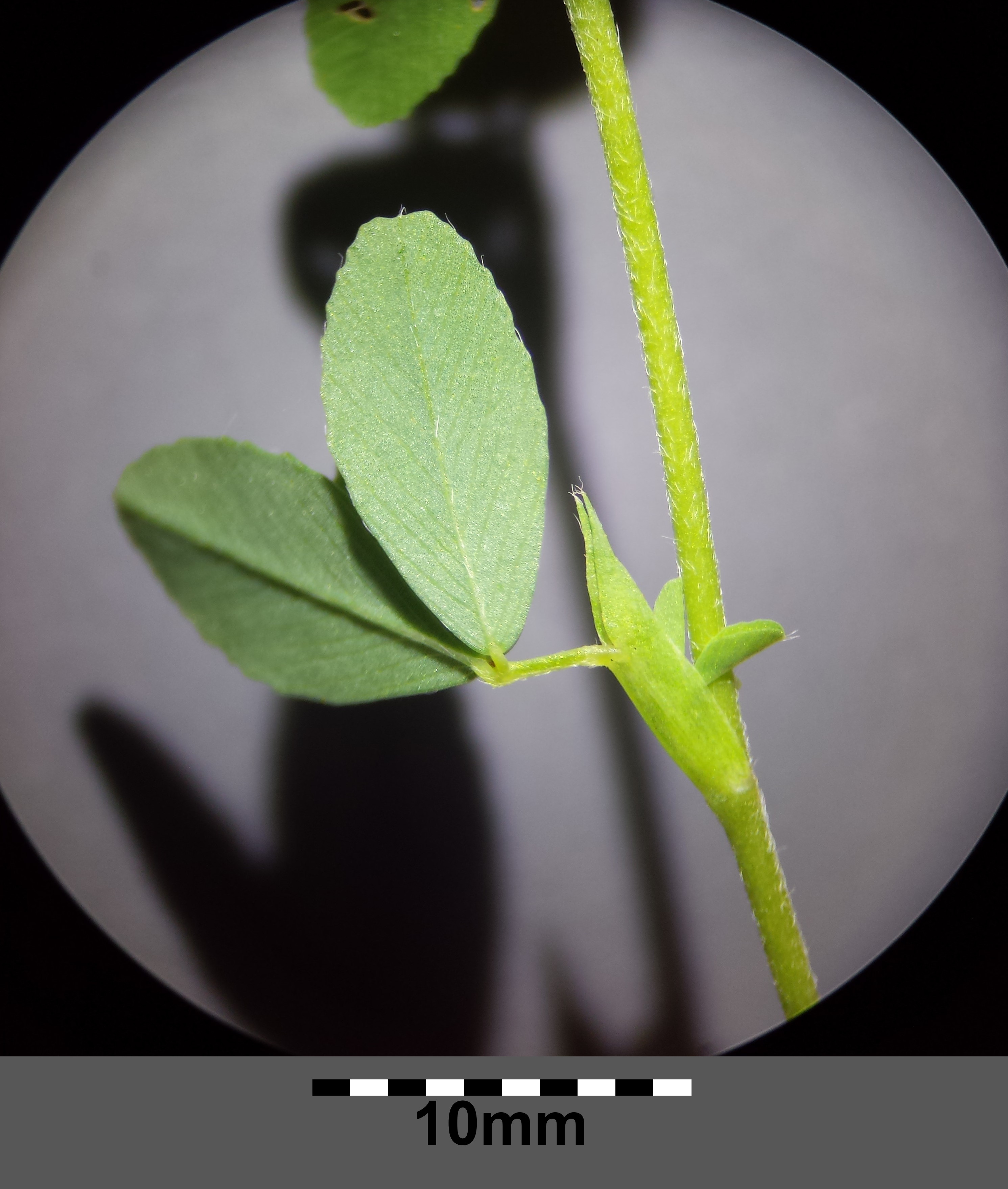 Stipe with leaves and stipules Taxonym: Trifolium aureum ss Fischer et al. EfÖLS 2008 ISBN 978-3-85474-187-9 Location: near Altmelon, district Zwettl, Lower Austria - ca. 900 m a.s.l. Habitat: border of a wood